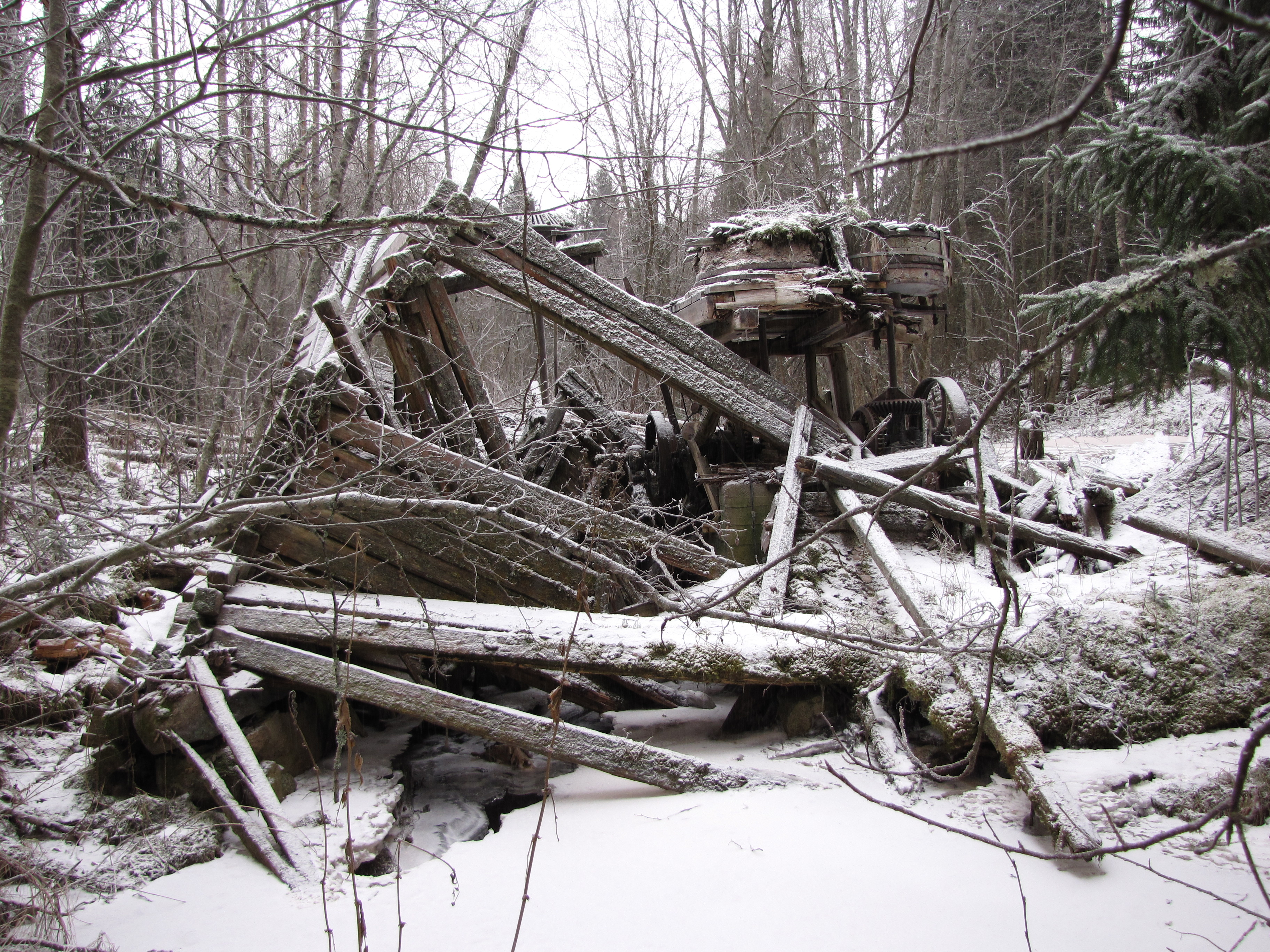 Former watermill of Rintamäenkoski on Koskutjoki river, Jalasjärvi, Finland. The mill completed in 1892.